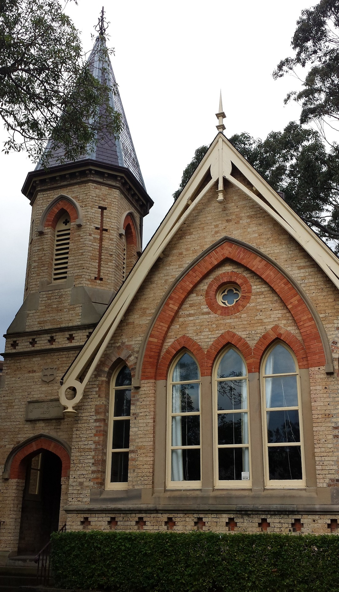 Old Darlington School 1878, Maze Crescent, Sydney University, Darlington New South Wales